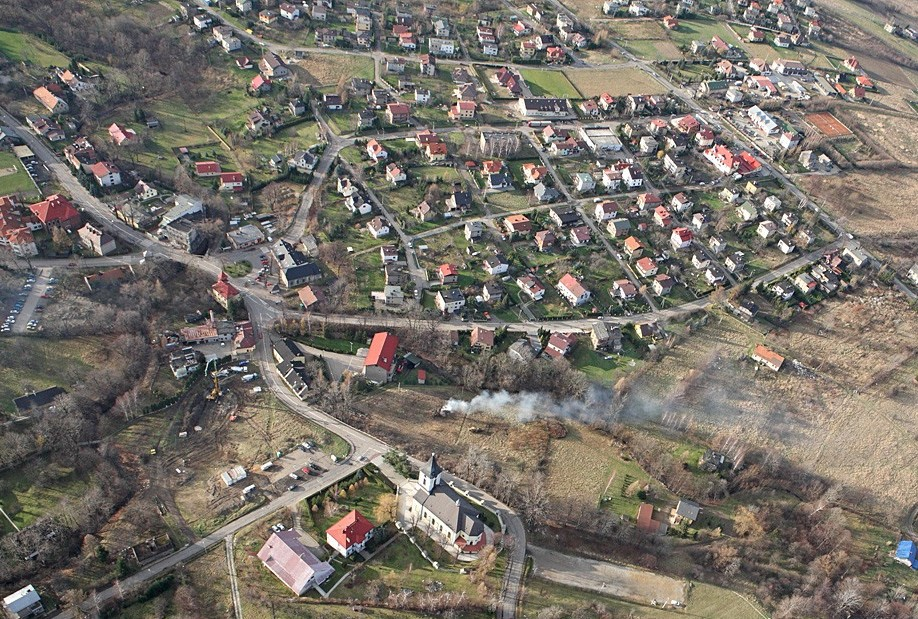 Aerial photography of Lipnik Dolny, part of Lipnik - district of Bielsko-Biała, Poland.